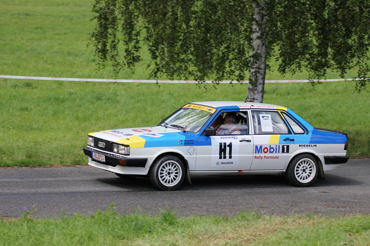 H1 Harald Demuth - Robert Broisch (DEU) - Audi 80 Quattro / group A / 1983 replica 2010, Rally Bohemia 2012